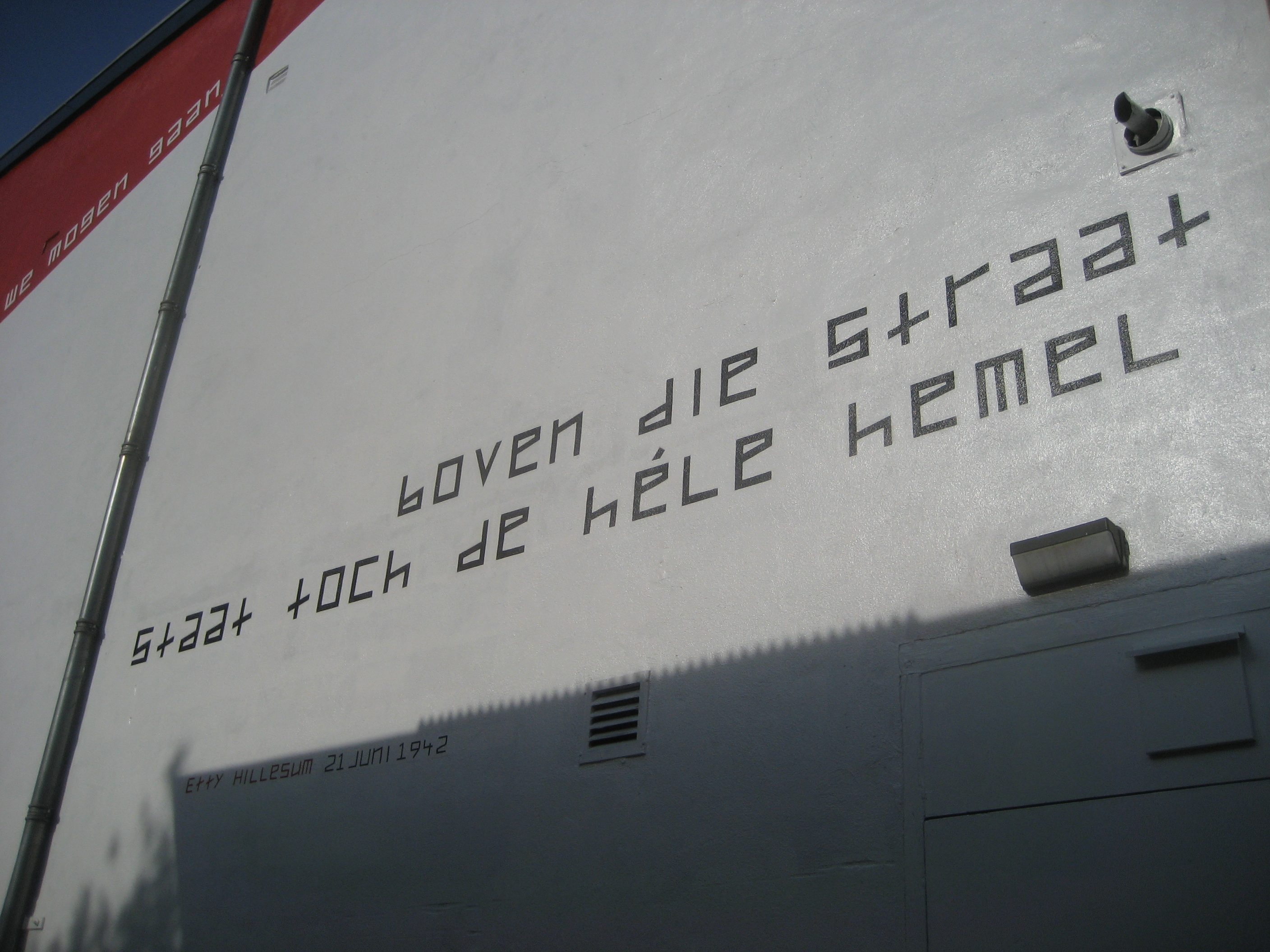 "boven die straat staat toch de héle hemel" (tekst van Etty Hillesum, 21 juni 1942) Etty Hillesum Centre, Roggestraat 3, Deventer (Nederland)